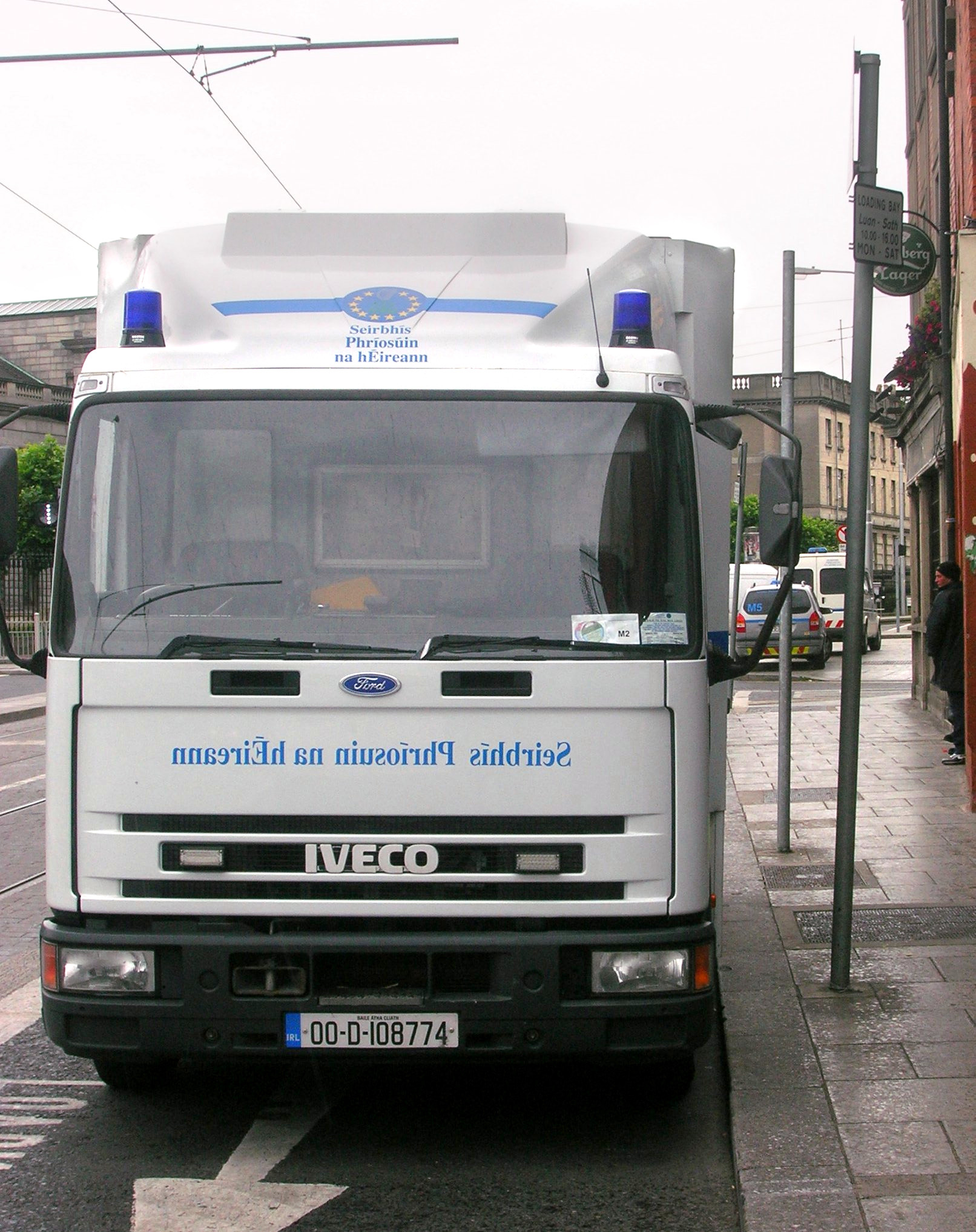 Irish Prison Service's Iveco Ford truck at Dublin's Legal Quarter.